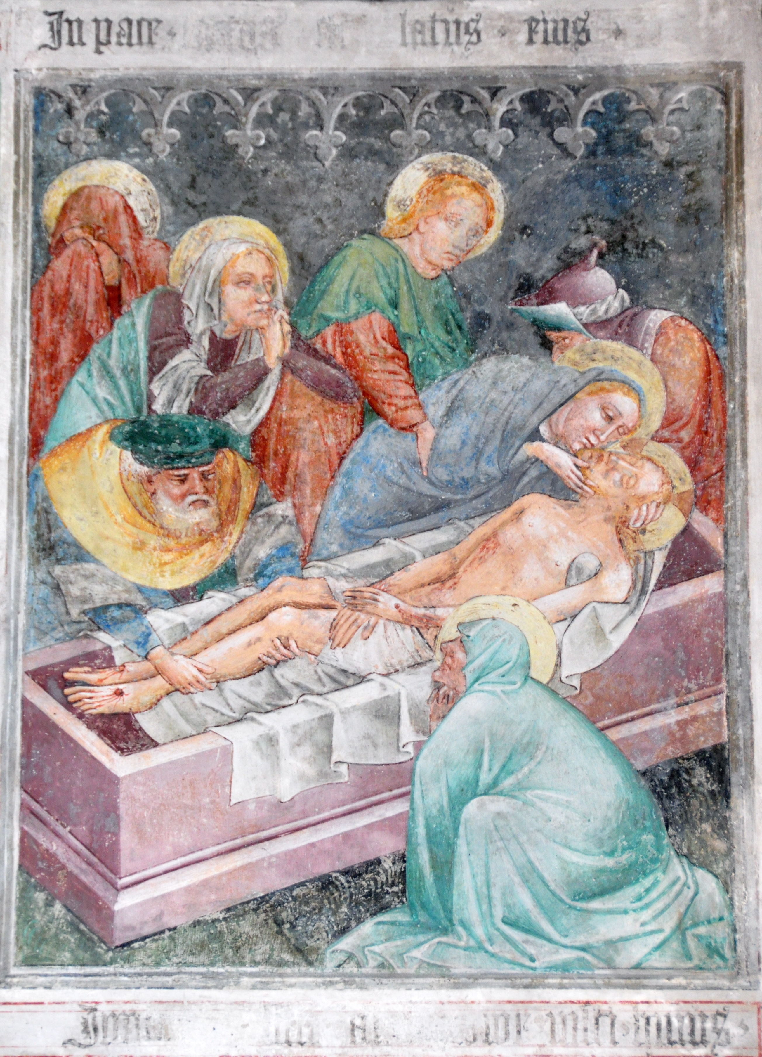 "Entombment and Lamentation of Christ” (fresco by Thomas von Villach in 1527) on the north wall of the parish church Saint Andrew at Thoerl-Maglern-Greuth, municipality Arnoldstein, district Villach Land, Carinthia / Austria / EU